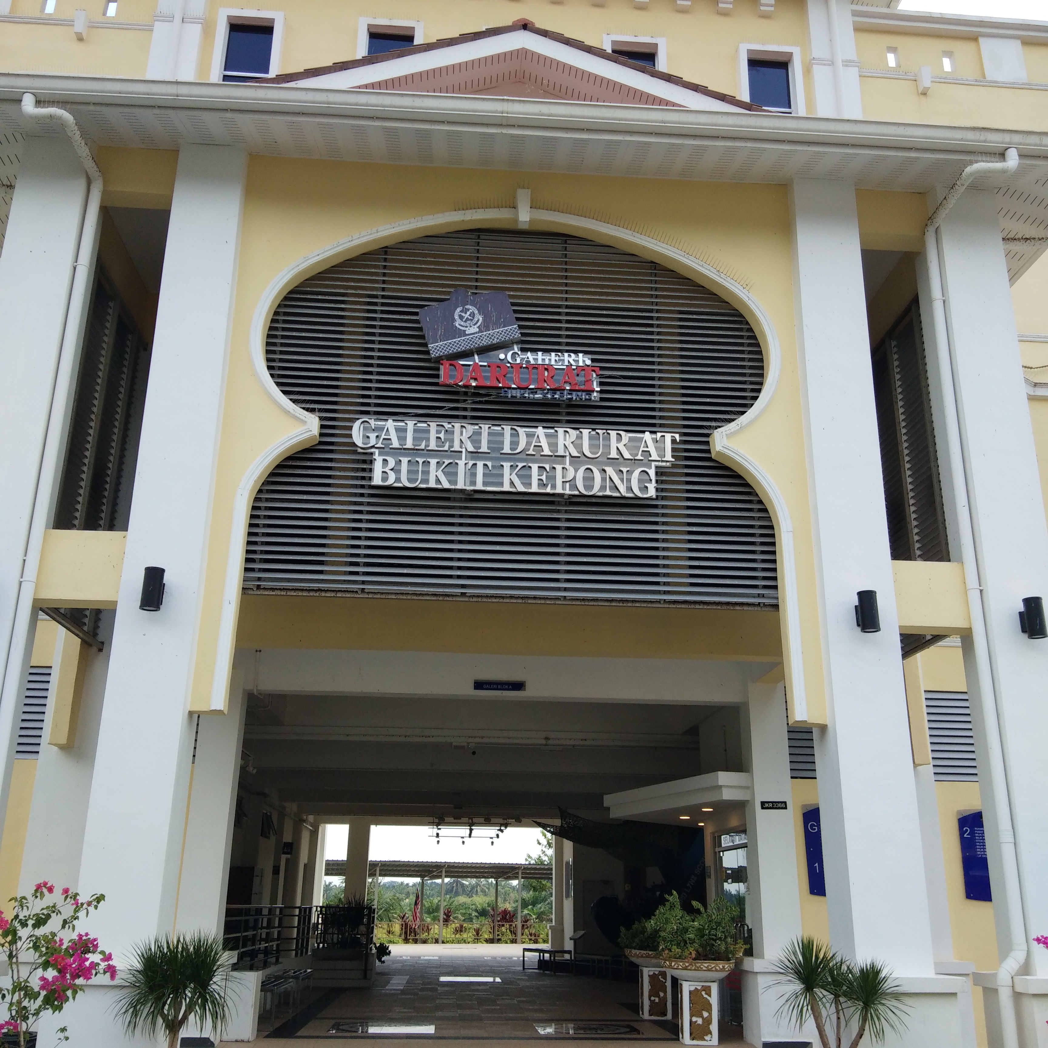 Insurgency gallery of Bukit Kepong